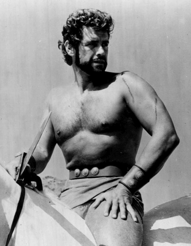 Photo of actor Gordon Scott from a 1965 ABC-TV special, Hercules.